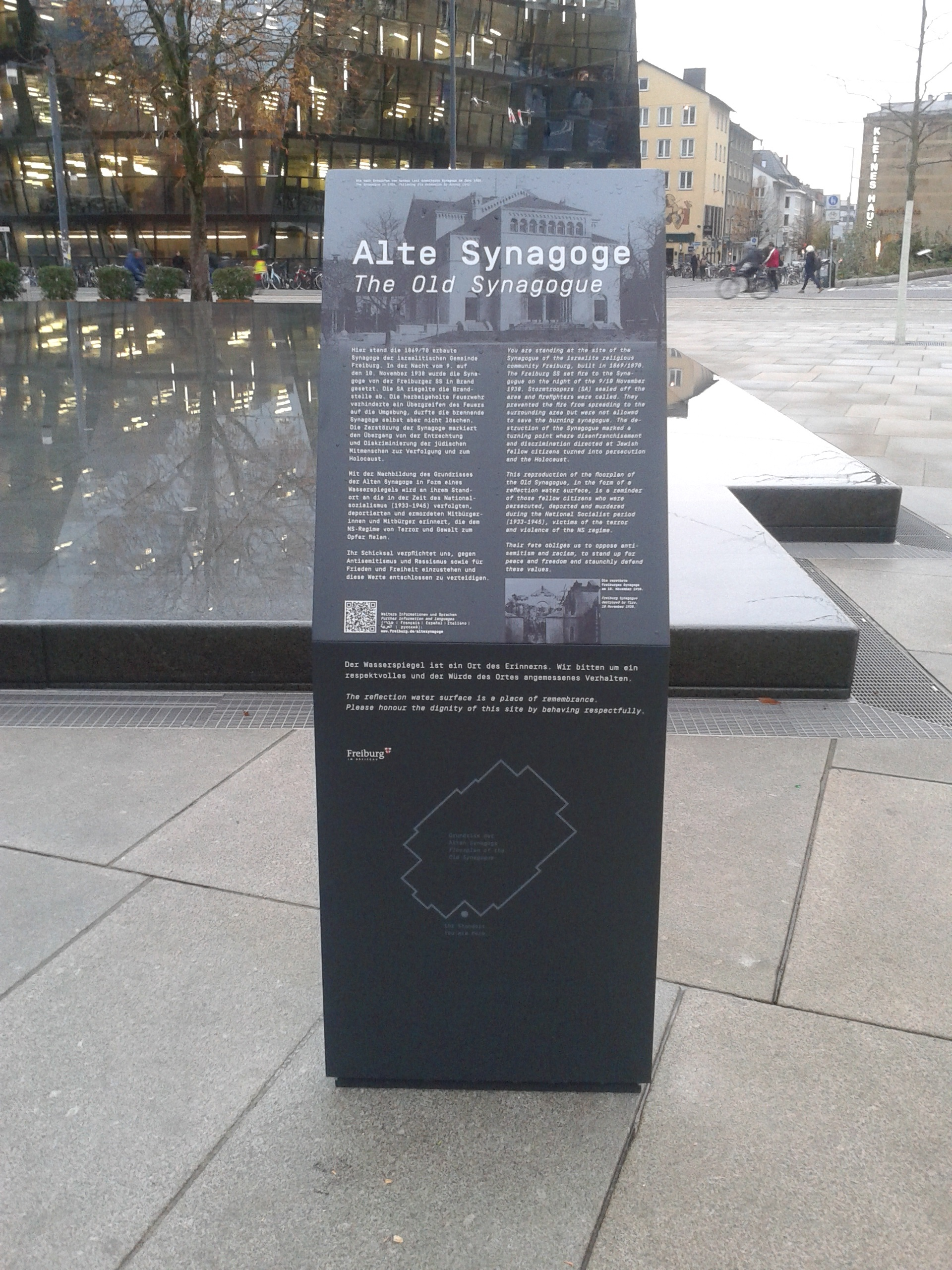 Information Plaque - Place of the Old Synagogue, Freiburg